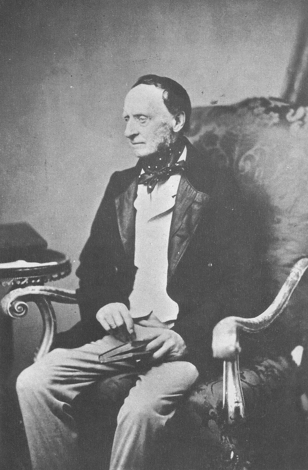 Photograph of Klemens Wenzel Nepomuk Lothar, Prince of Metternich, in his last years of life